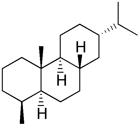 chemical structure of fichtelite